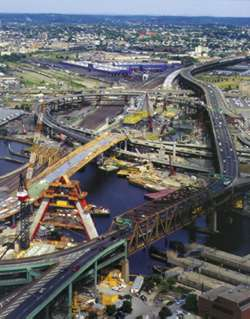 View of Boston's Big Dig from the air. This view is looking from Boston over the Charles river. The A-frame bridge just being started here has since been completed, and the green highway structure has been removed.